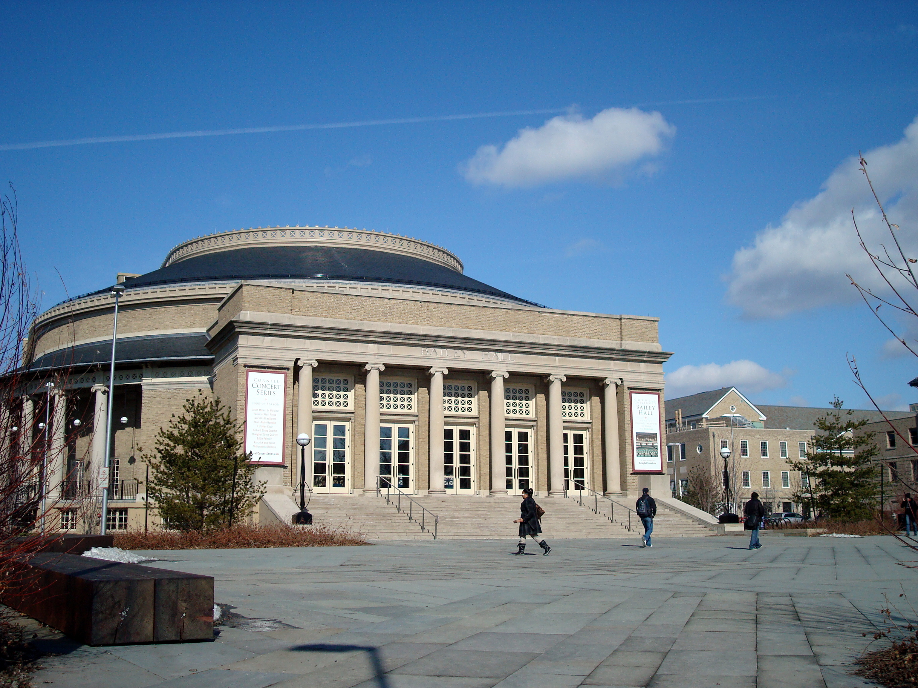 Bailey Hall at Cornell University, with Bailey Plaza visible in the foreground.